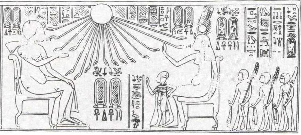 The royal family – Amenhotep III with Queen Tiye and Princess Beketaten. Amarna tomb of Huya.